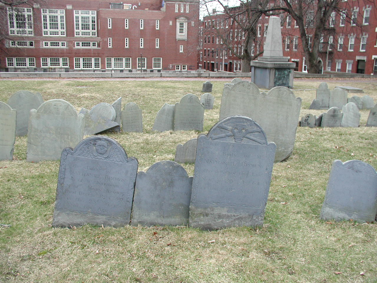 Leaning Tombstones at Old North Church, Boston